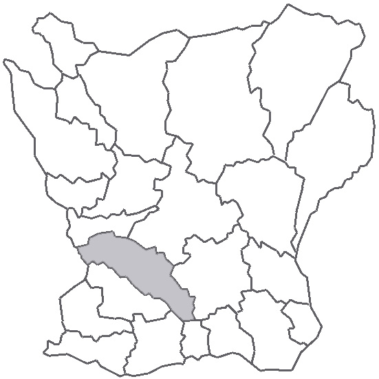 Map describing the location of Torna Hundred in the province of Skåne, Sweden.